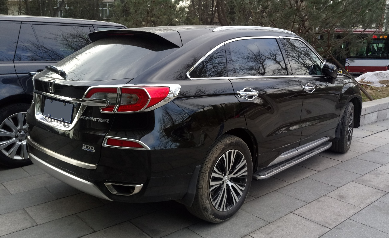 Honda Avancier CN photographed in Beijing, China.